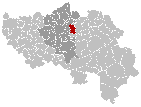 Map, municipality belgium Soumagne